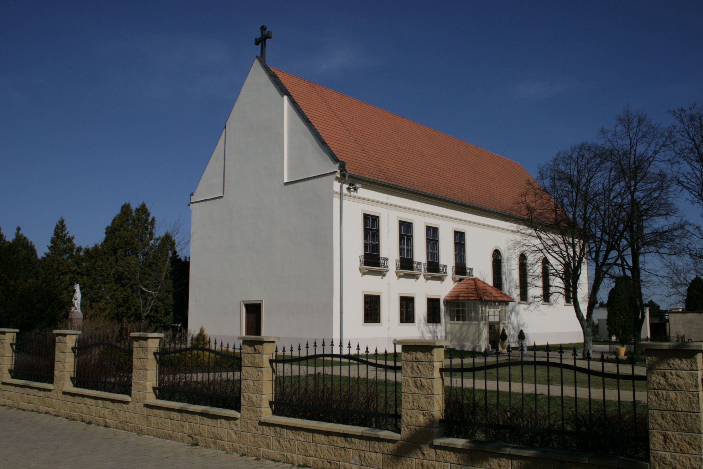 Church in Kráľová pri Senci (Senec district, Slovak Republic)